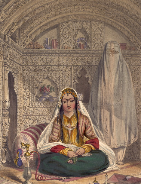 Ladies Of Caubul (1848) A political mission composed of Doctor Lord and Captain Rattray (James' brother) was established at Bamiyan. This was the frontier city of Afghanistan and the first spot which could be attained by the Russians. It was also the only road by which the exiled Dost Mohammed could revisit his kingdom. The region was famed for its Buddhist statues. Shakar Lab ('Sugar Lips') was the favourite wife of a former governor of Bamiyan and niece by marriage to Dost Mohammed. As a great favour, Rattray was introduced to her at Kabul. Describing her as a Qizilbash belle of the first water, Rattray wrote: "Afghaun ladies exercise more control over their husbands than is usual in Eastern countries." Though women of the higher classes were strictly under purdah as in Hindustan, Rattray wrote that they certainly enjoyed life more than the Hindustanis. Women were seen making constant pleasure excursions into tombs, gardens and bazaars, and they threw off their veils and restraint in secluded spots.